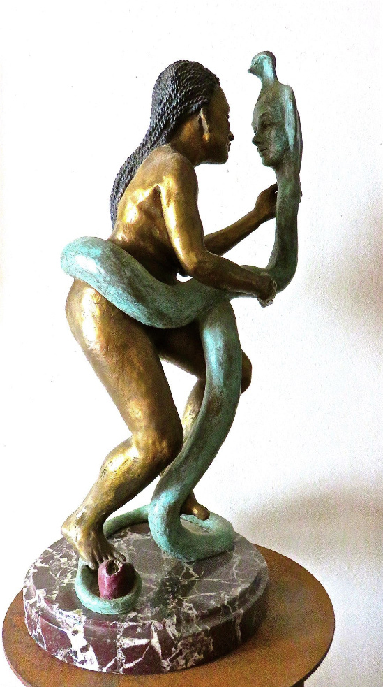 "The Two Faces of Eve" (1996) by Charles Sherman, bronze sculpture with mixed patinas, porphyry base, 30" x 12" x 8" "And the serpent said unto the woman: Ye shall not surely die." Genesis 3:4 "I have realized Eve dancing with the serpent, looking deep into the eyes of serpent and realizing that it is a mirror image of her own face. Eve may have lived longer than anyone else in the Bible; her name means "Mother of All Living Things." She may still be with us today. There is no mention in the Bible of the death of Eve. It is said in some commentaries that God braided Eve's hair." Charles Sherman